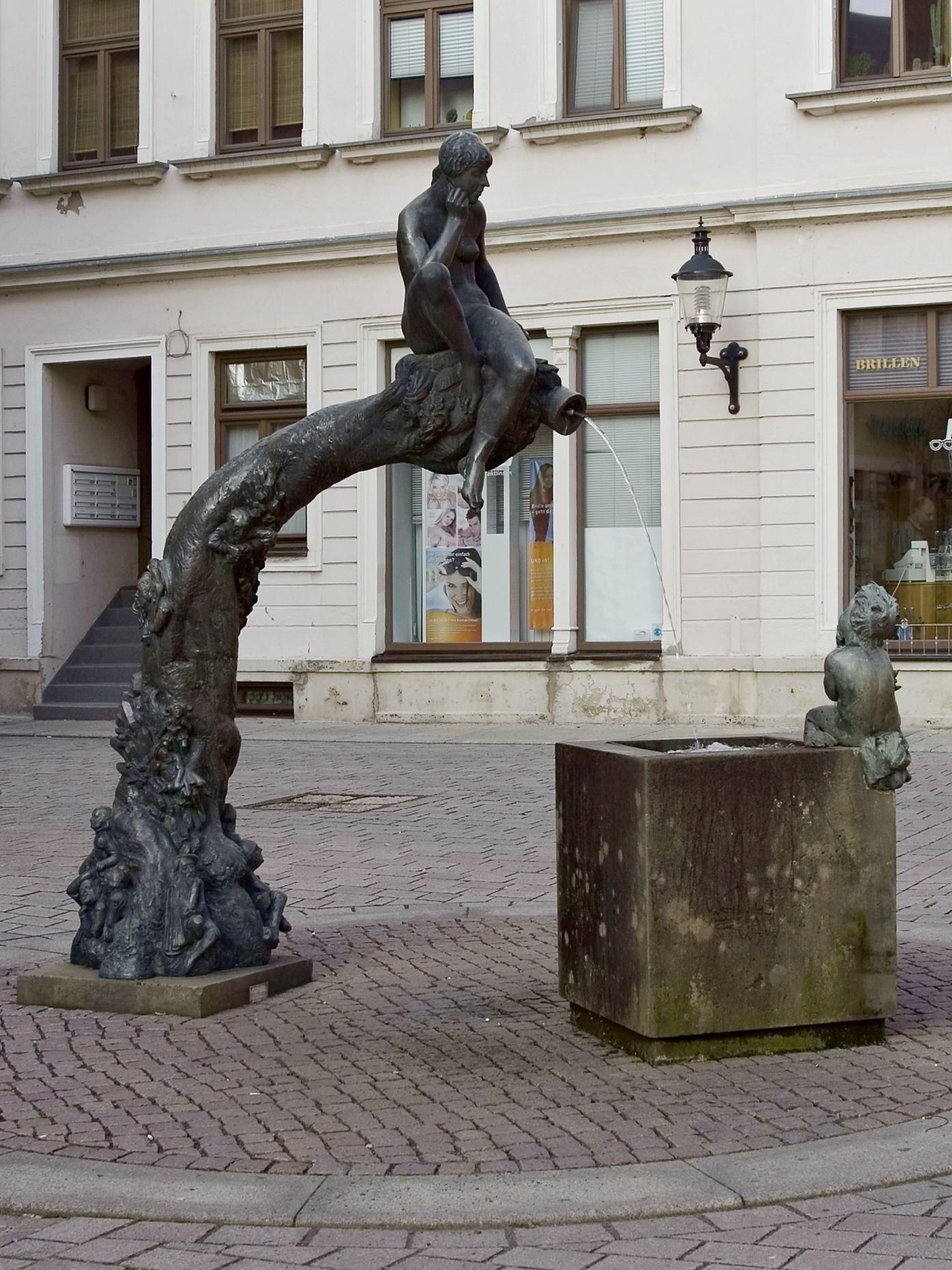 Freiberg (Saxony), Fortuna Fountain